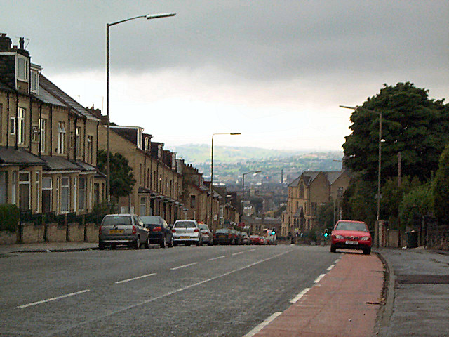 Barkerend Road. The B6381 descends towards the city centre, with the former Hanson school in the middle distance to the right of the road.